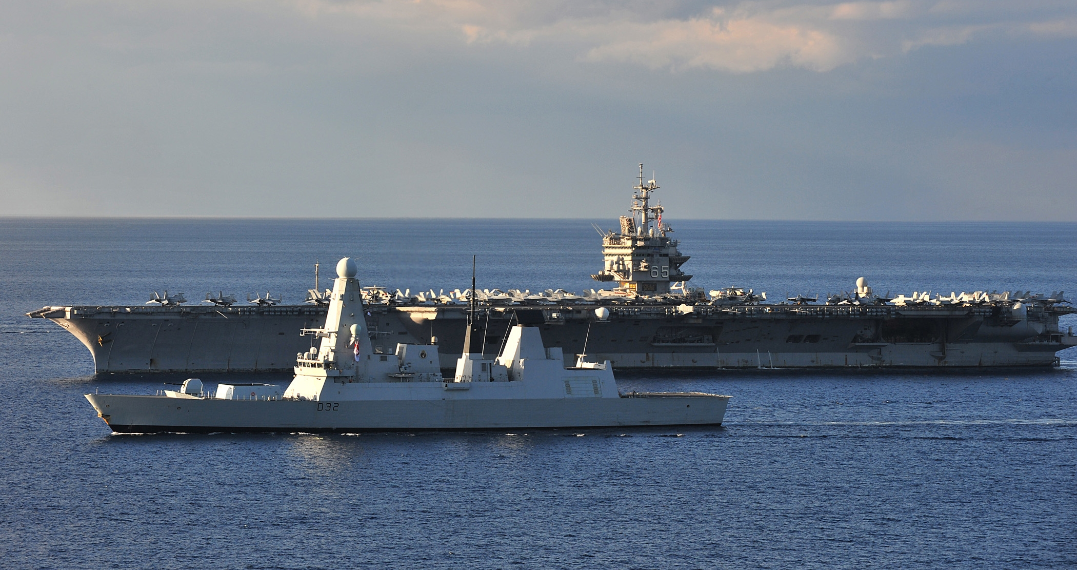 The aircraft carrier USS Enterprise (CVN 65) is underway with the Royal Navy destroyer HMS Daring (D 32) during a Composite Training Unit Exercise for the Enterprise Carrier Strike Group.